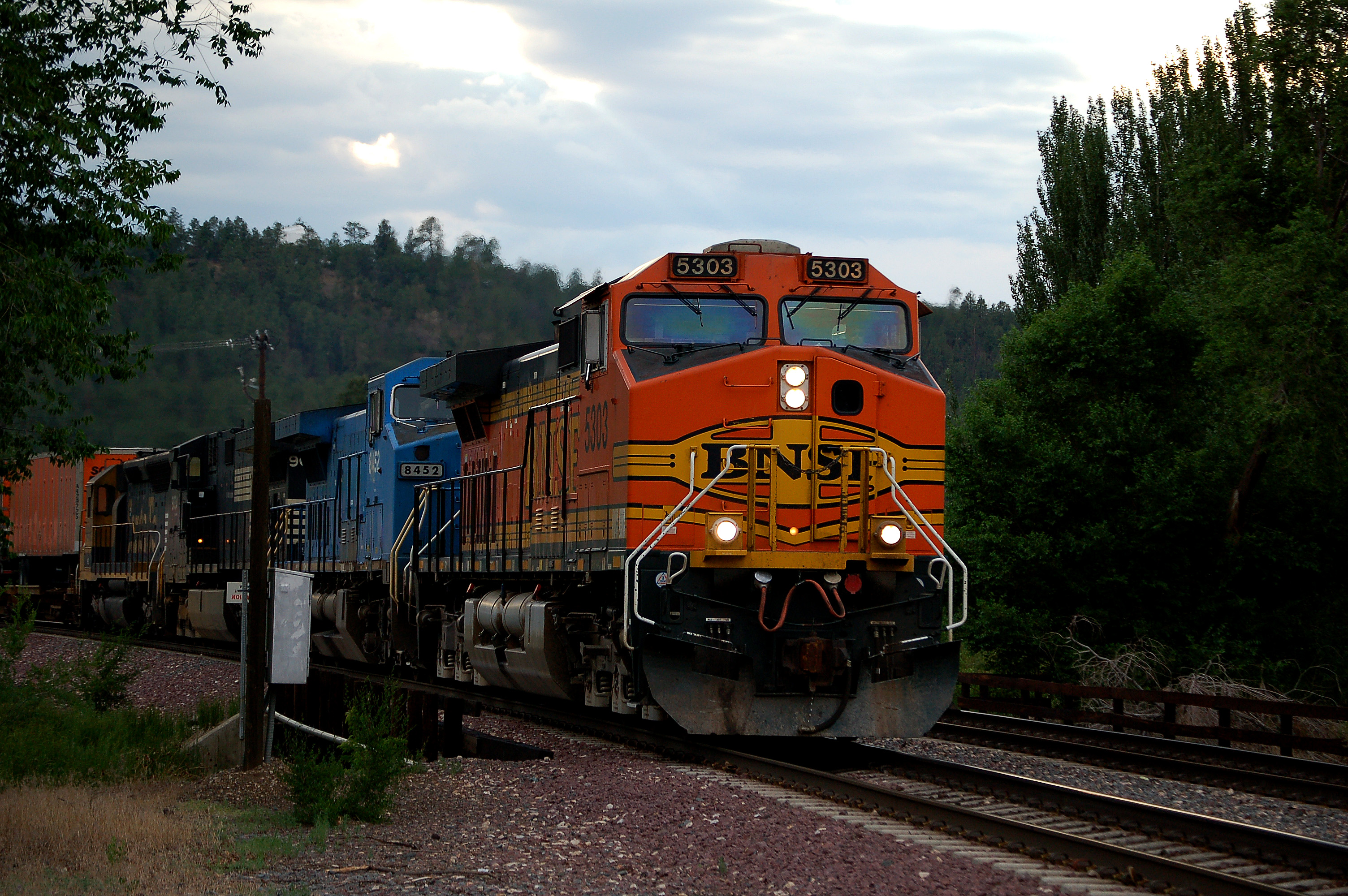 BNSF train in Flagstaff, Arizona. Photo by Derek Cashman.